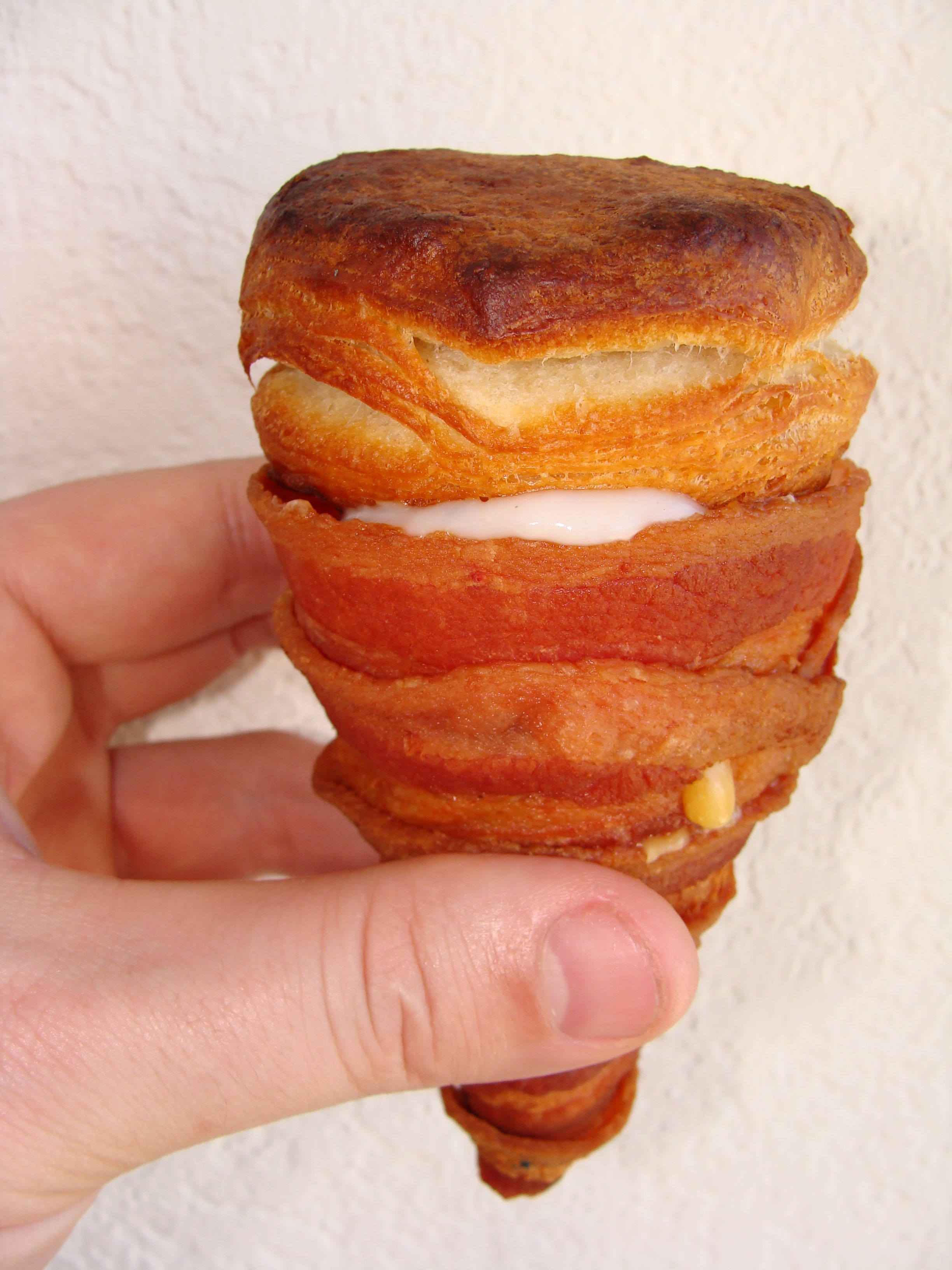 This photo of the Bacone was taken in 2009 by myself, Bacone co-inventor Christian Williams. This photo also features my left hand and the wall of my former rented condo in San Mateo, CA. I have published this photo on other websites and Wikipedia previously.